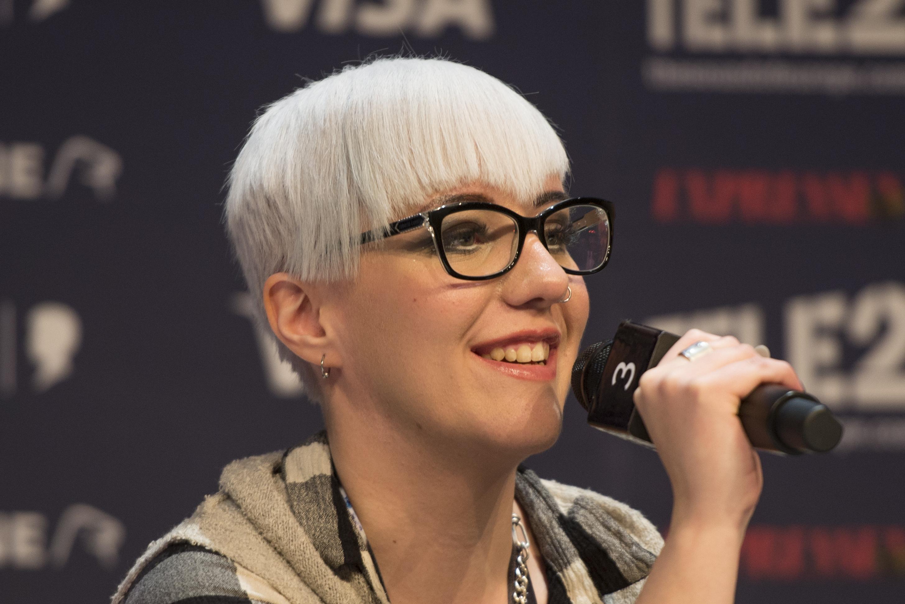 Nina Kraljić at a Meet & Greet during the Eurovision Song Contest 2016 in Stockholm. (Help translate this text)